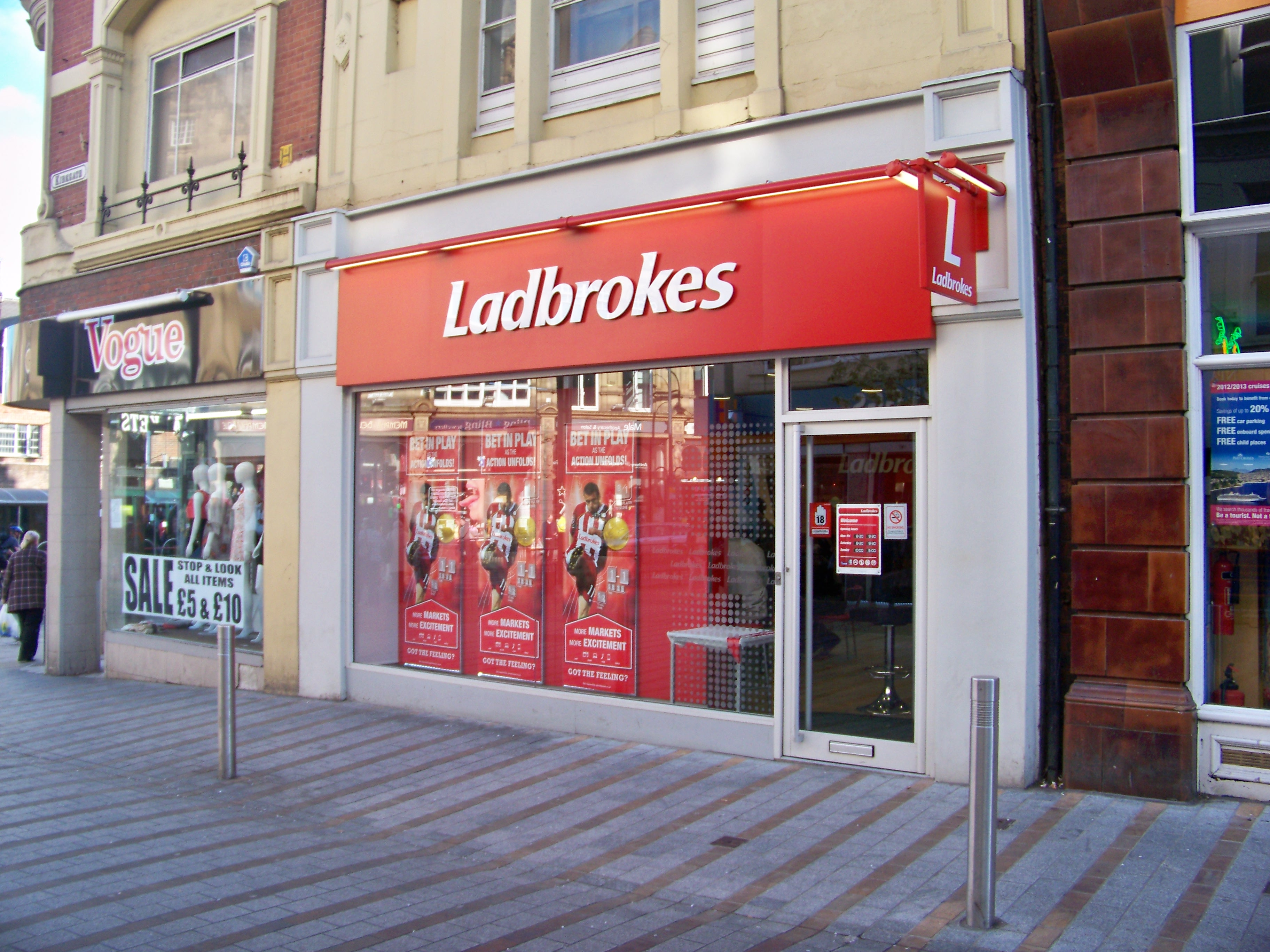 Leeds